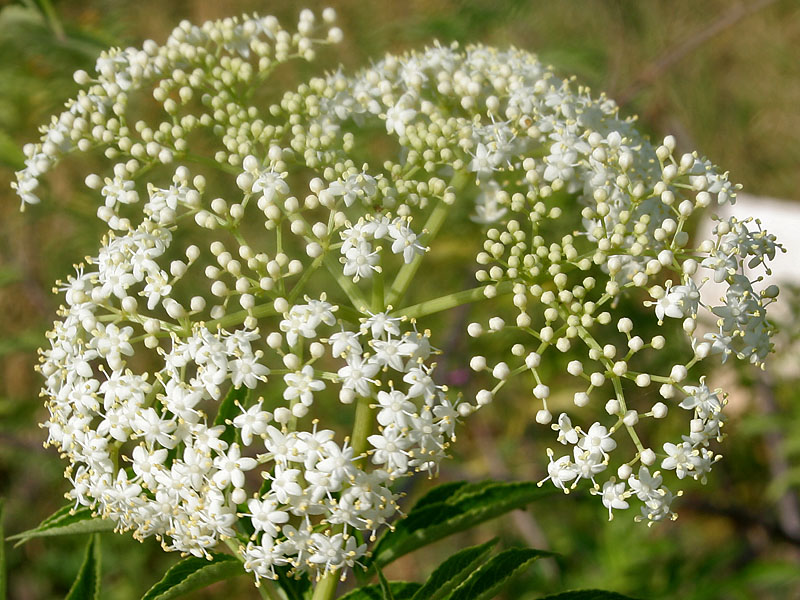 Sambucus canadensis- American Elderberry, American elder, elderberry, sweet elder, shambhukosha- in Herbal Garden, in Rangareddy district of Andhra Pradesh, India.